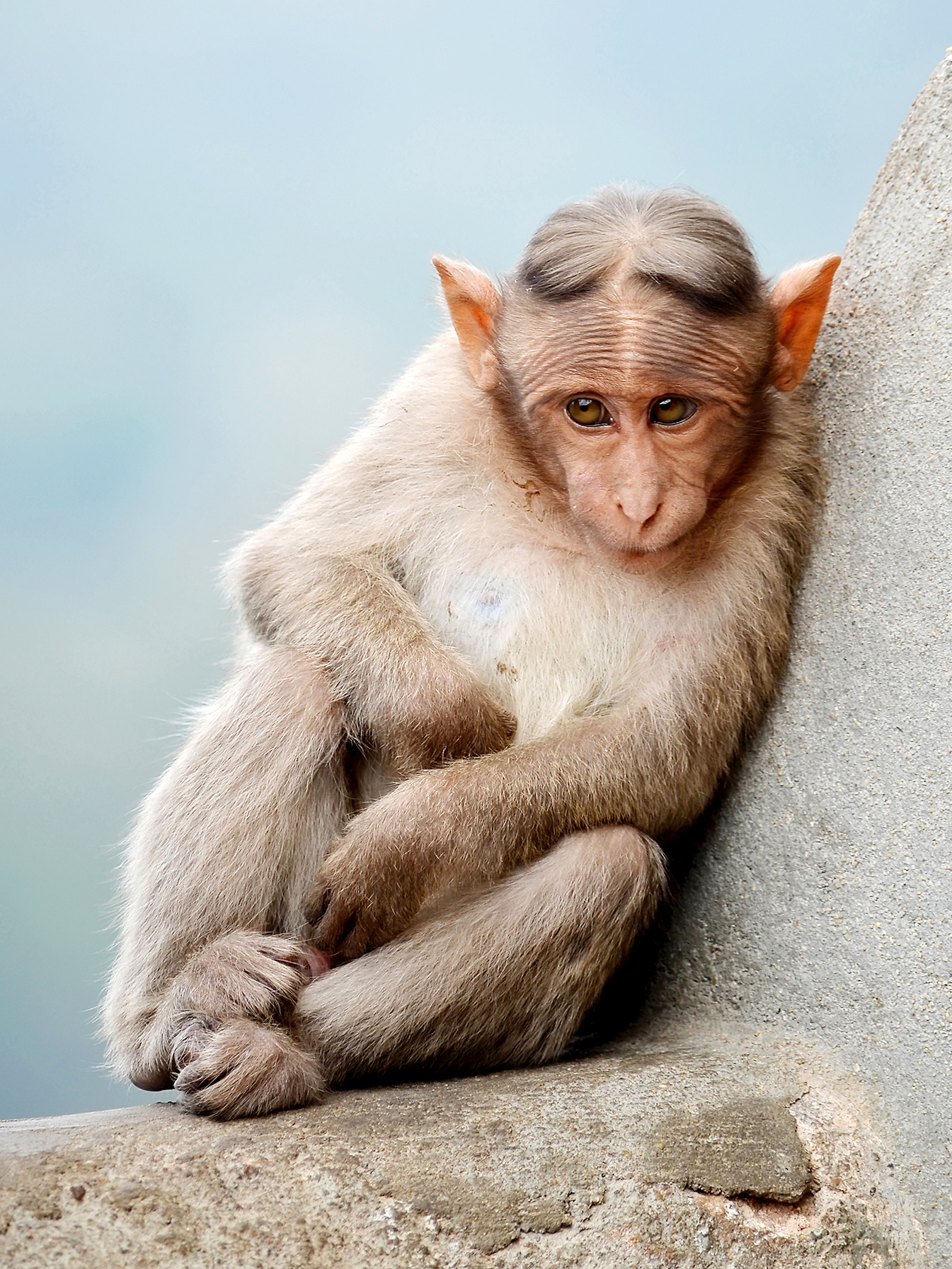 A bonnet macaque (Macaca radiata) sitting on a rock.